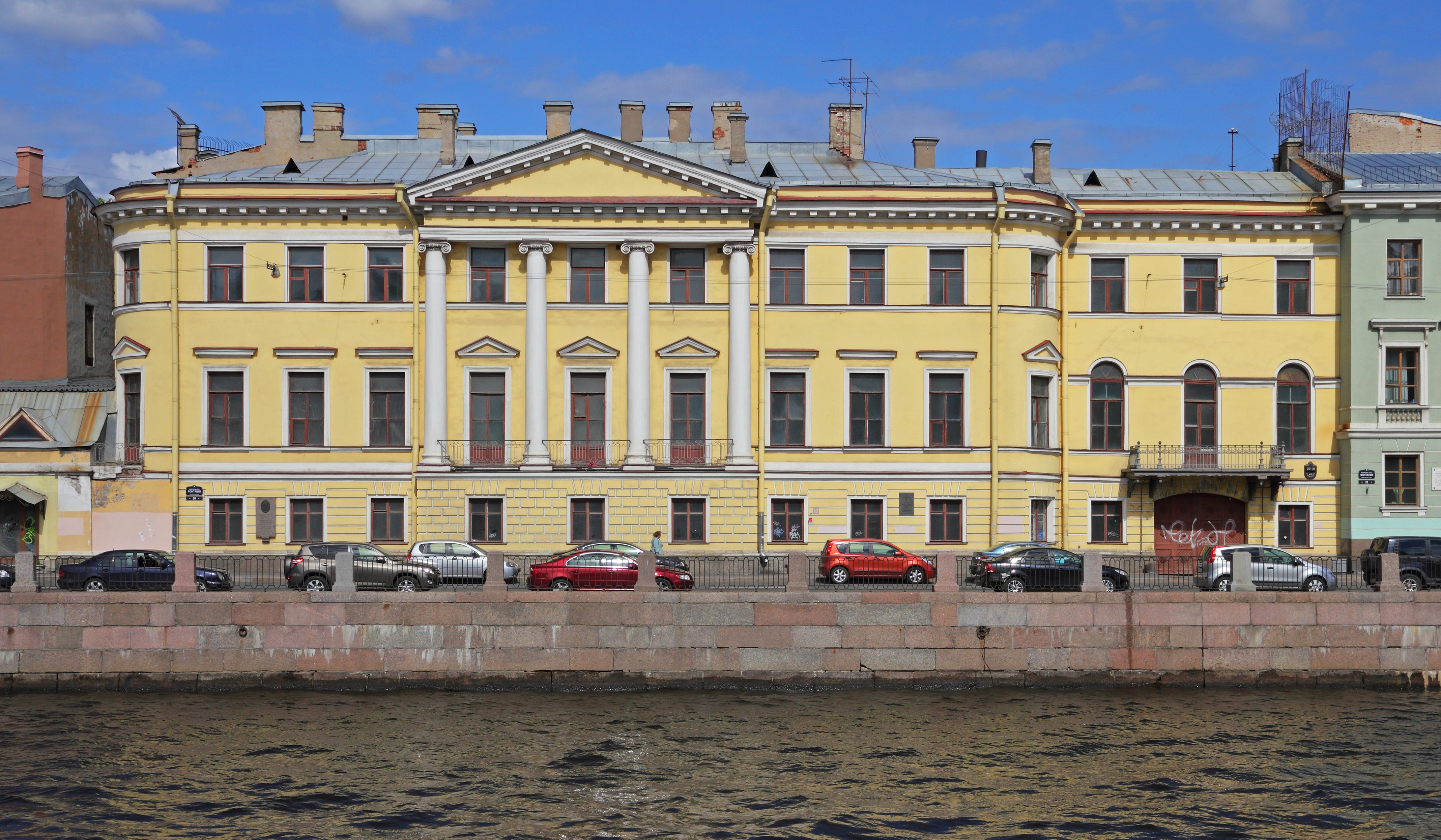 Saint Petersburg, Russia. Fontanka Embankment, house 20 (Golitsyn House).